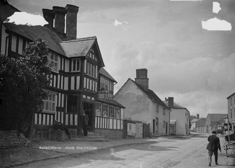 Abstract: Radnorshire Arms Presteigne